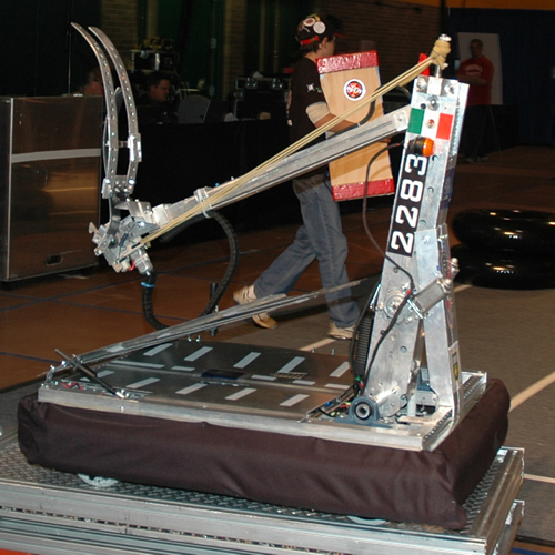 Guacamole is the Panteras 2007 FRC robot. It won the Rookie All Star Award on Detroit and Atlanta's Championship.